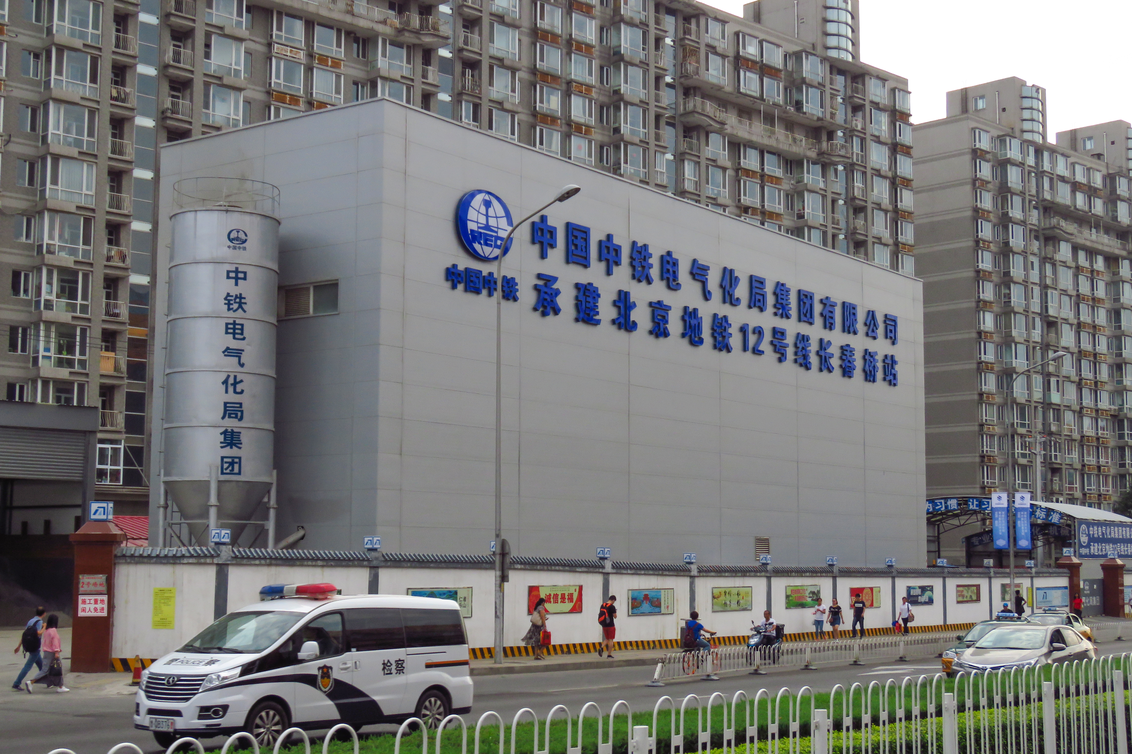 The North 3rd Ring Rd Line.